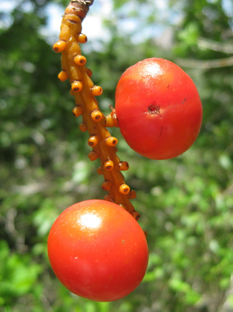 Dracaena reflexa with ripe fruits. In its natural habitat in Ancuabe district of Mozambique.